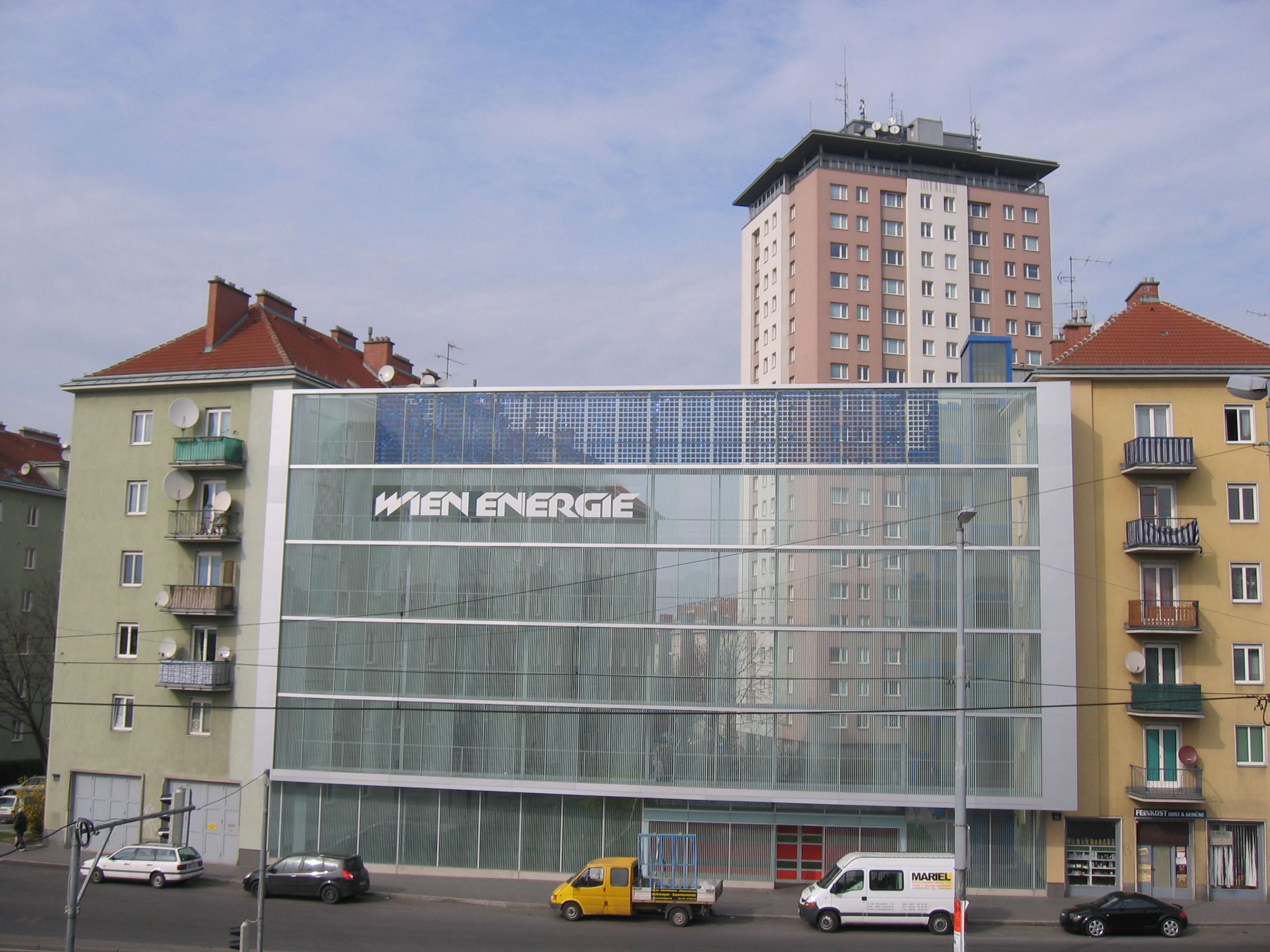 Noise-barrier wall at Theodor-Körner-Hof with photovoltaic panel, in the 5th District, Margareten of Vienna (photo: March 2008).